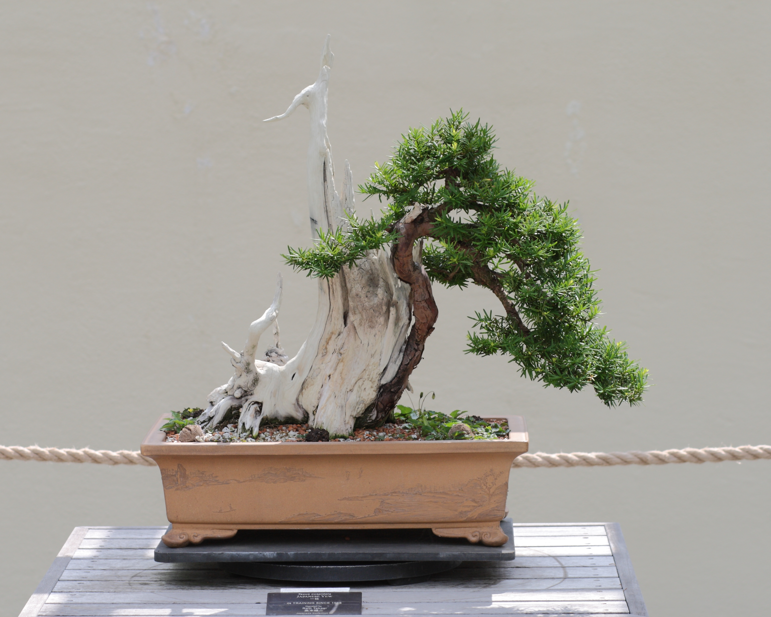 A Japanese Yew (Taxus cuspidata) bonsai, Japanese Collection 57, on display at the National Bonsai & Penjing Museum at the United States National Arboretum. According to the tree's display placard, it has been in training since 1966. It was donated by Reiji Takagi.